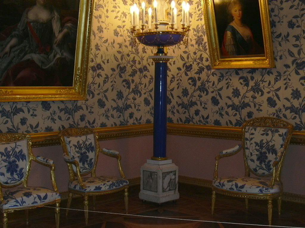 Pushkin (Russia), Smart blue drawing room of the Catherine Palace